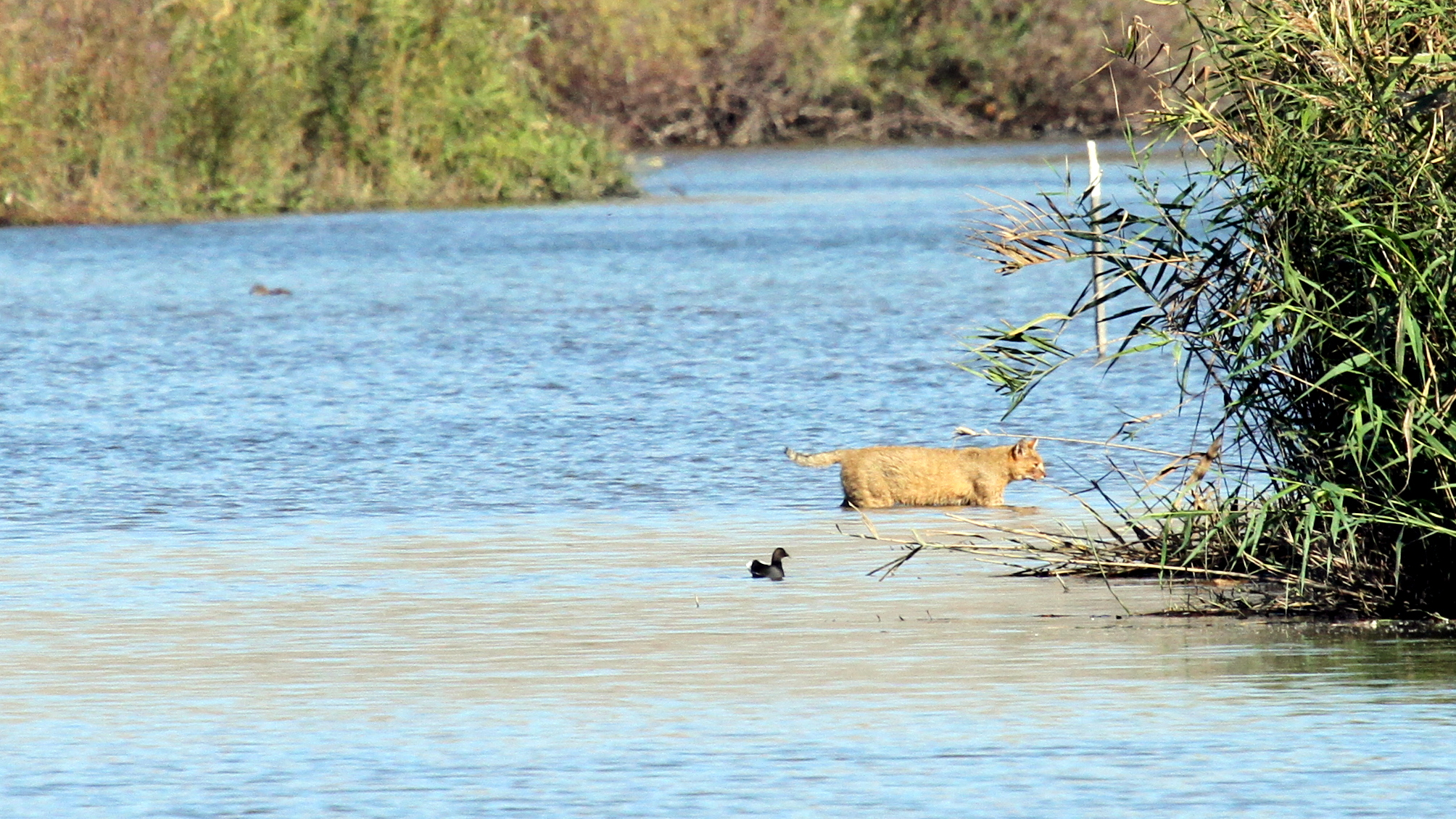 Jungle Cat Israel